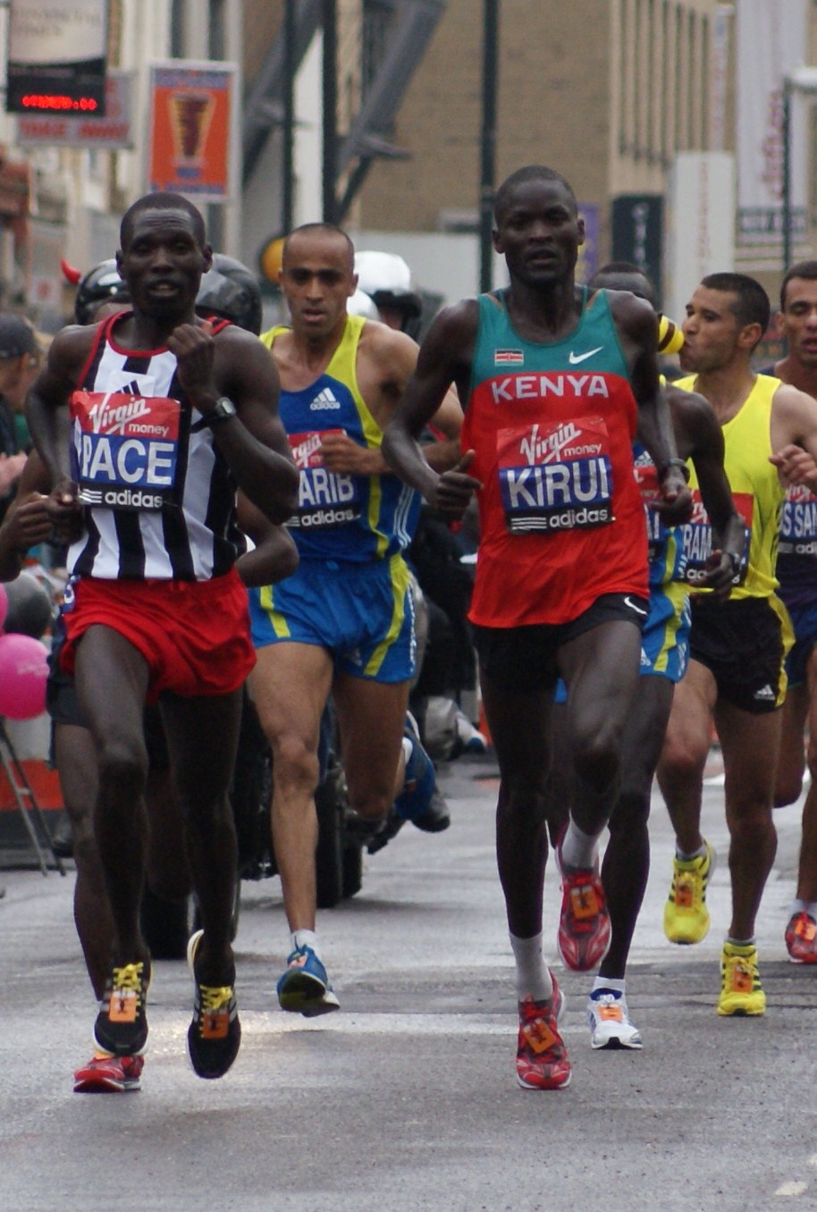 The leaders of the w:2010 London Marathon on the Isle of Dogs, London